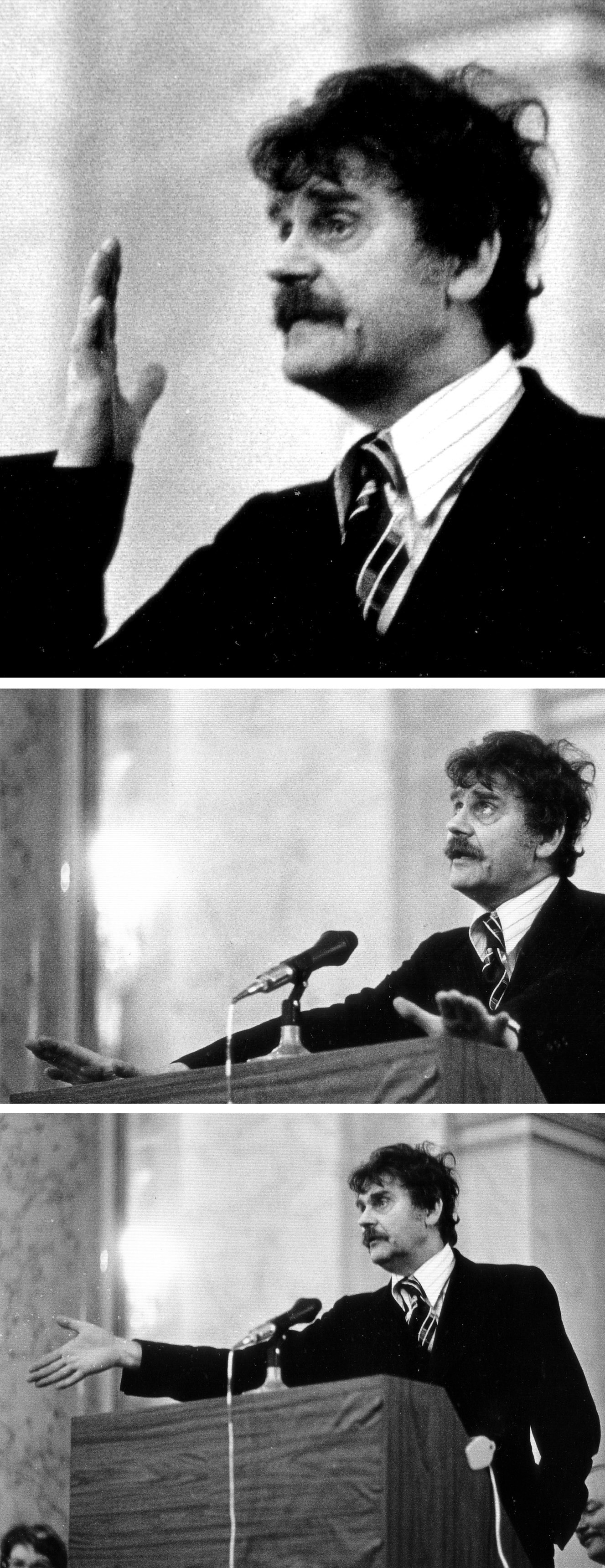 Austrian poet H.C. Artmann during his acceptance speech when getting Grand Austrian State Prize for literature. The poet however never cared very much about such things... (Nikon 85mm lens; available light, TRI-X, Microdol).